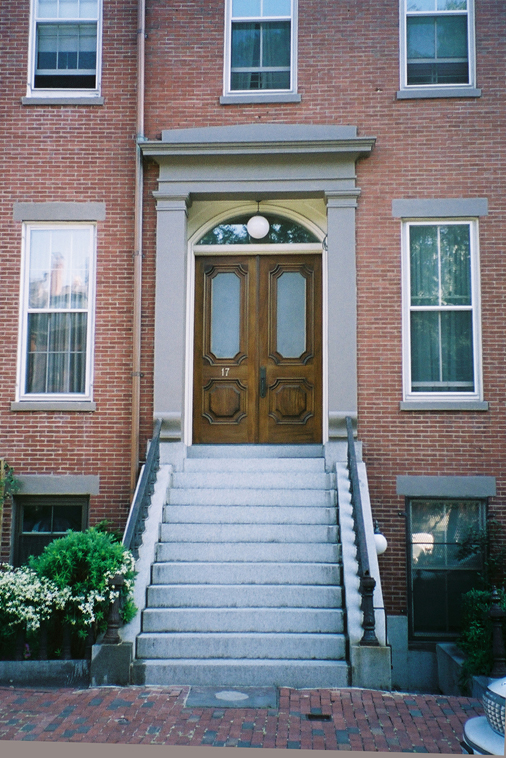 Flat-front brick row house in Boston's South End neighborhood.